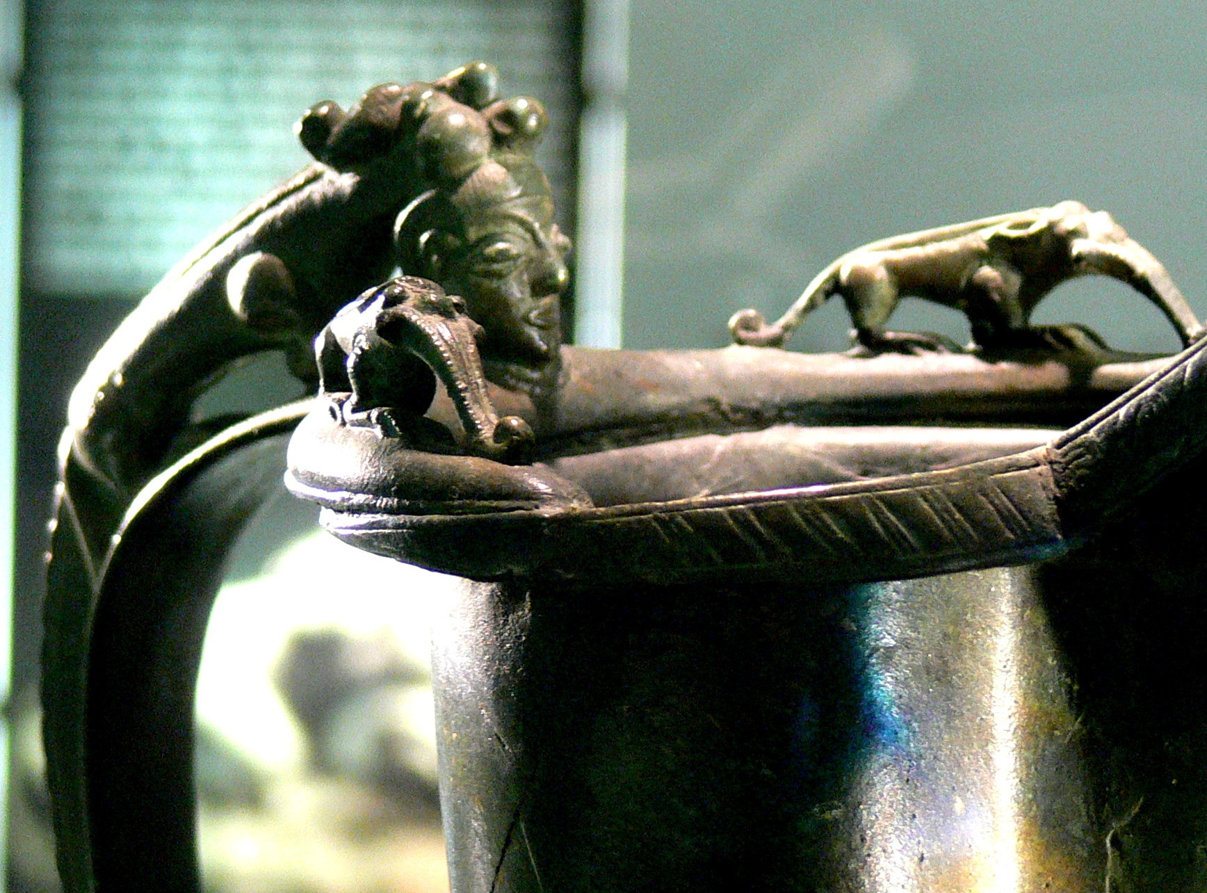 Celtic museum in Hallein ( Salzburg ). Celtic bronze jug ( 5th century BC ), from grave 112 at Dürnberg - detail.